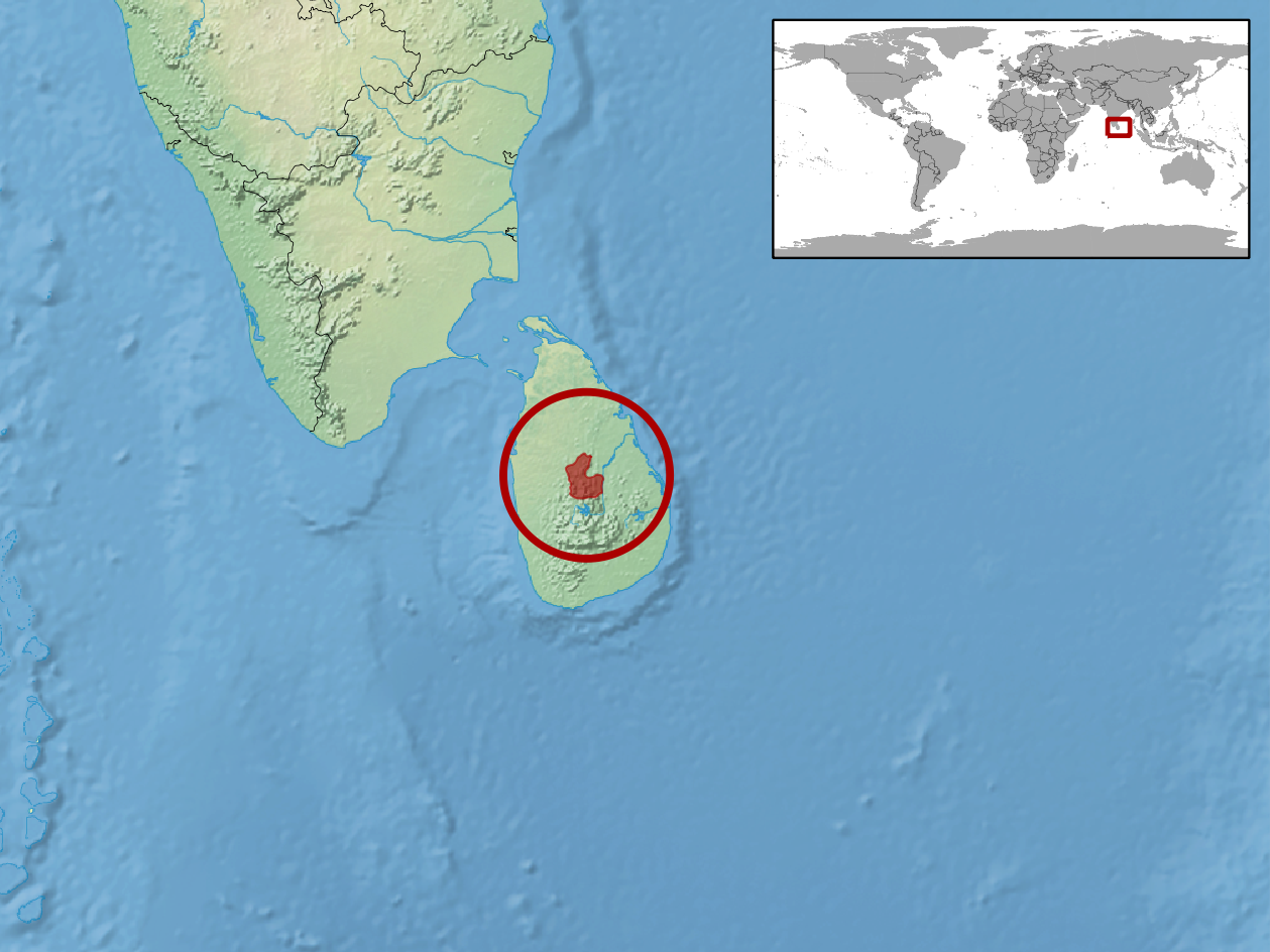 geographic distribution of Cnemaspis kandiana (Native: Sri Lanka)